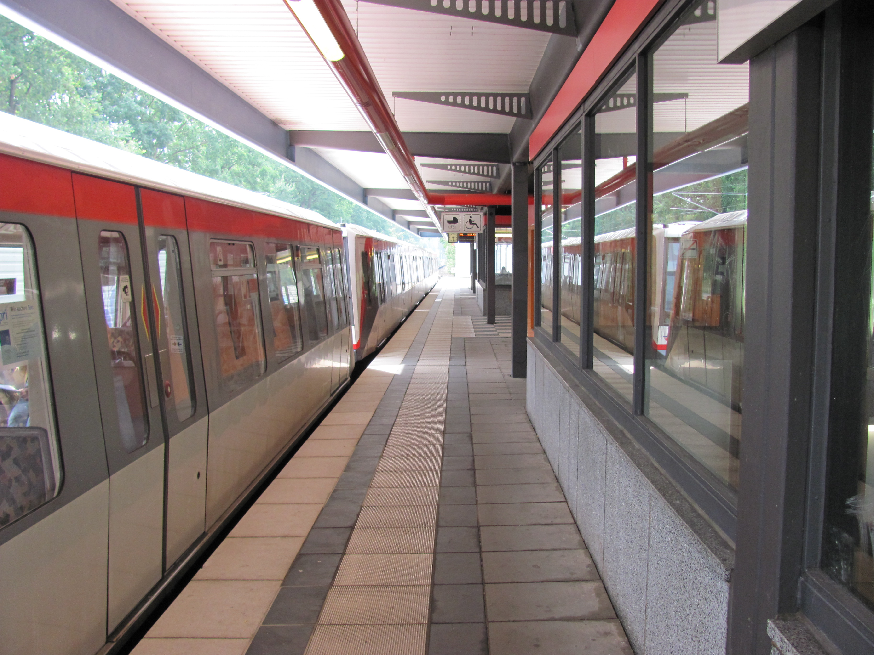 U-Bahn station Sengelmannstraße in Hamburg, Germany